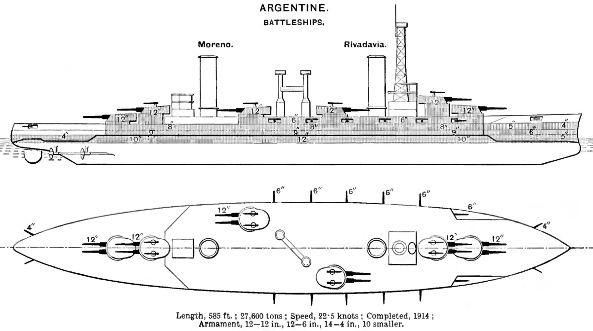 Right elevation and deck plan of Argentinian Rivadavia class battleship. Numbers on top diagram show armour thickness (shaded areas) in inches. Numbers on bottom diagram show size of guns in inches.